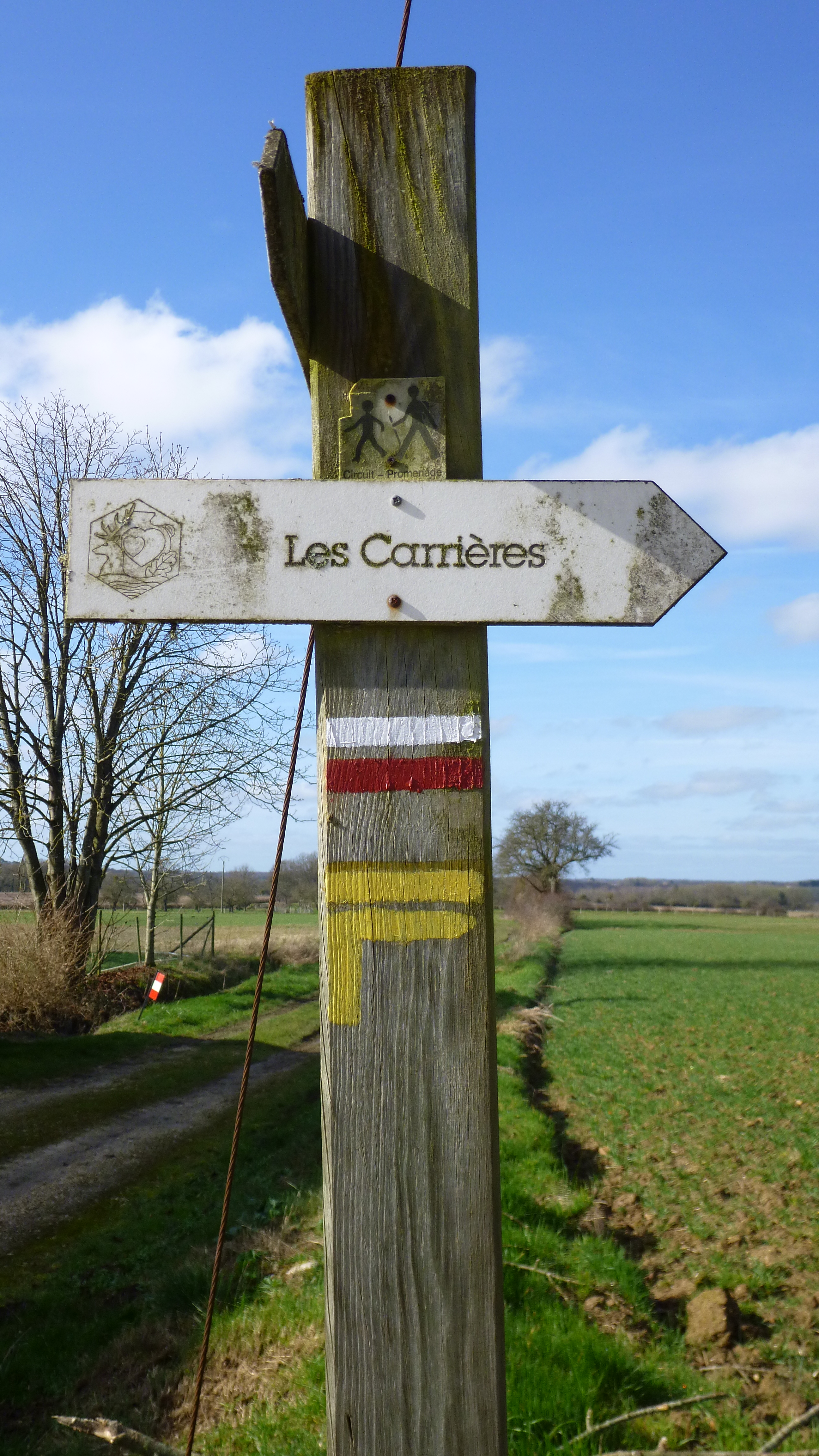 Saint-Martin-sur-Ouanne, Yonne, Burgundy, France. The national hiking path GR 13, its painted mark at Boissel.